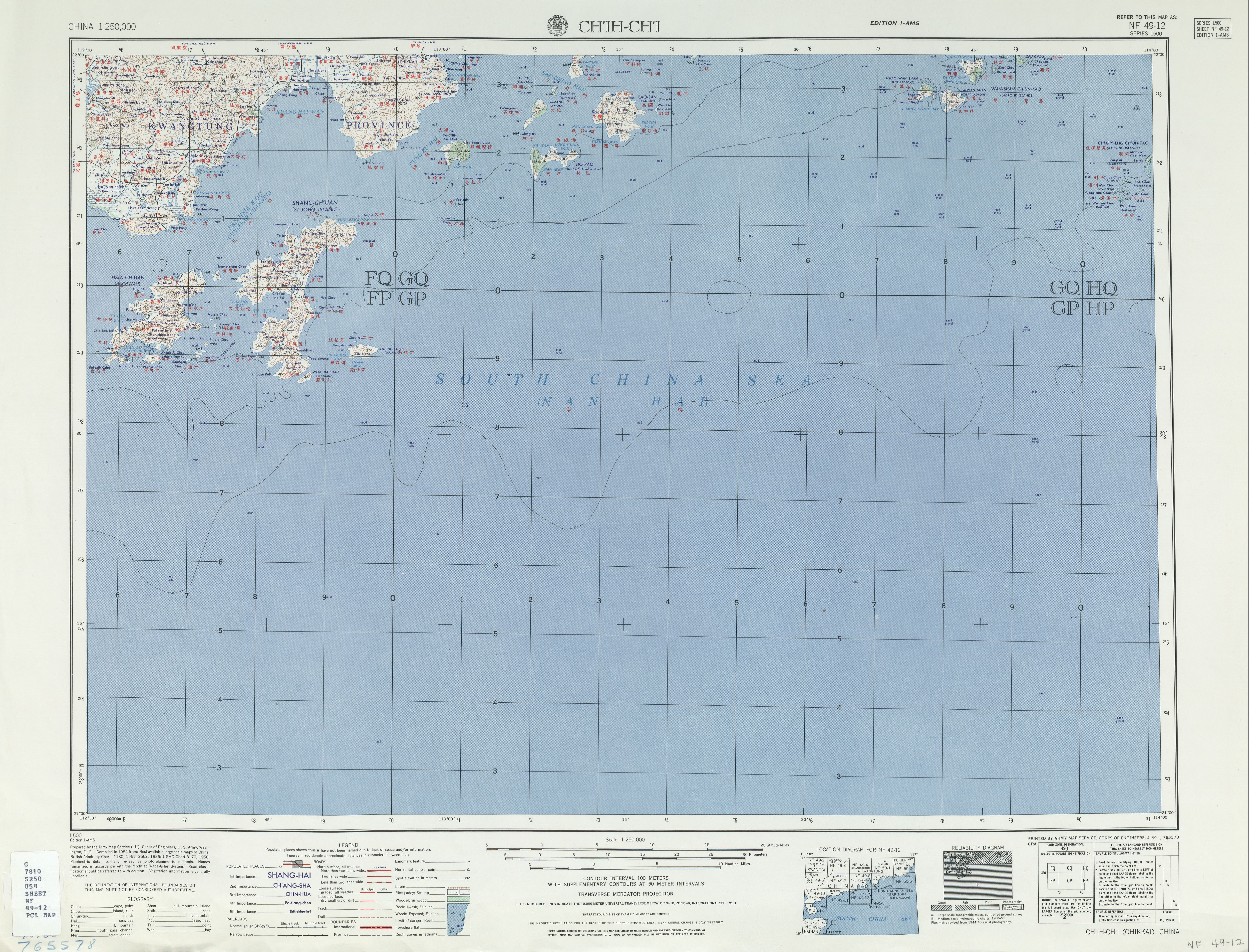 Map of Taishan, Guangdong area